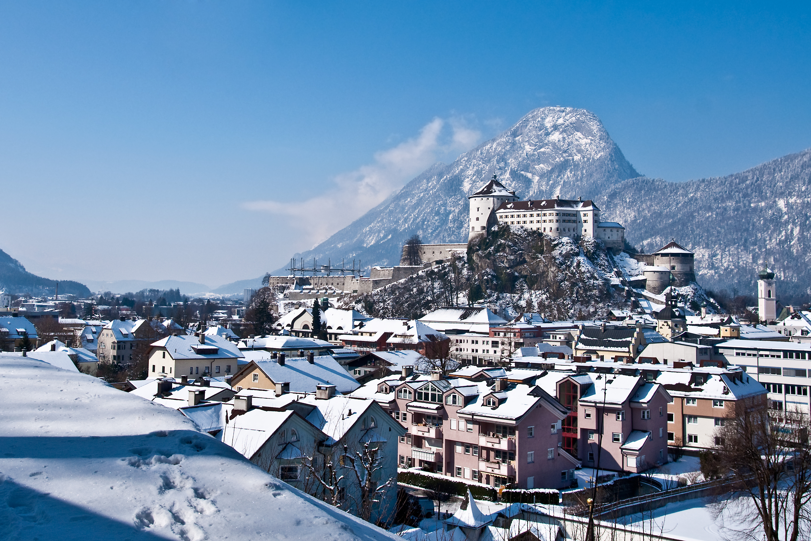 Kufstein Fortress, Tyrol, Austria 8 XR Di II LD